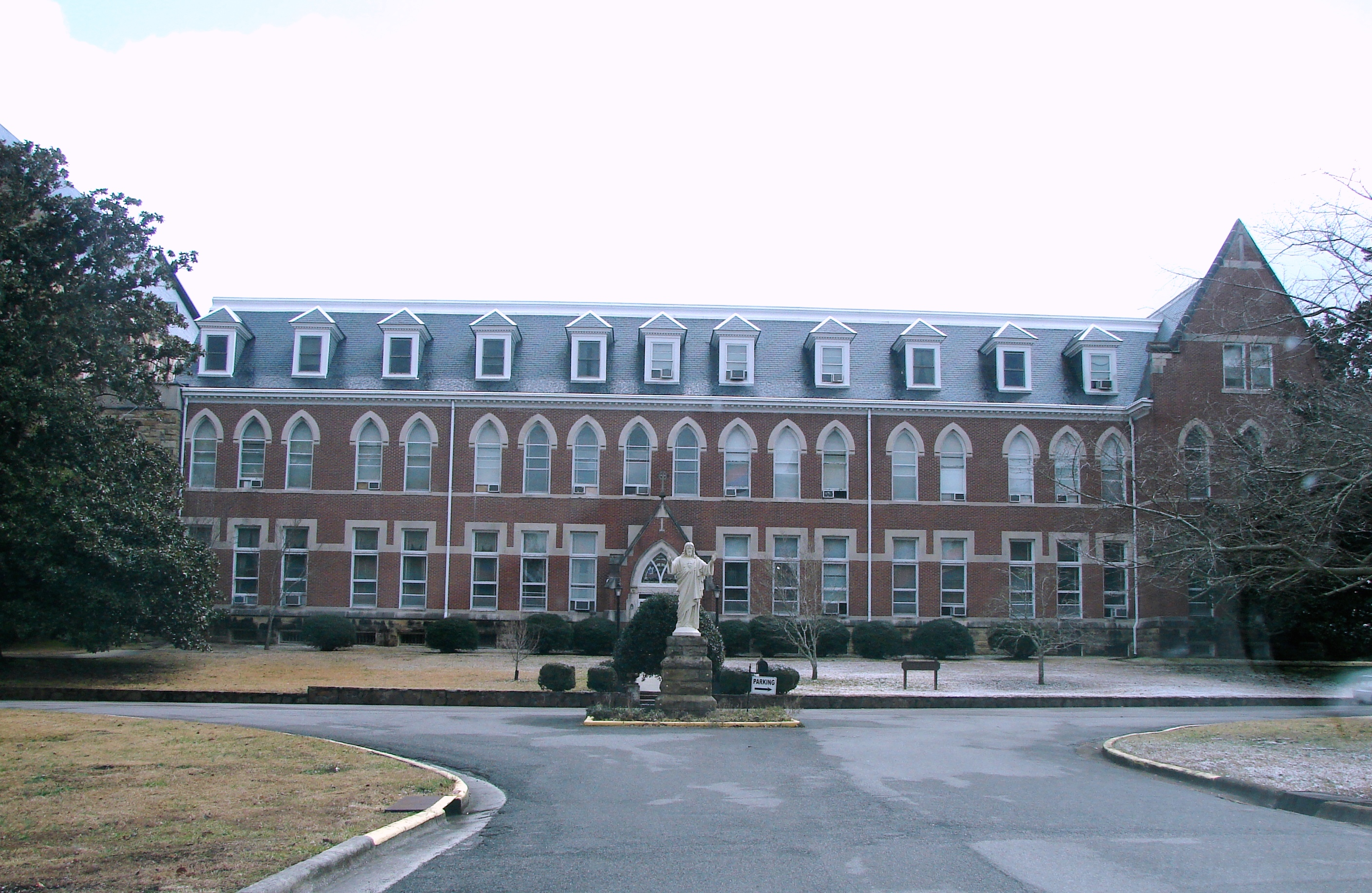 Benedictine Sisters of Sacred Heart Monastery